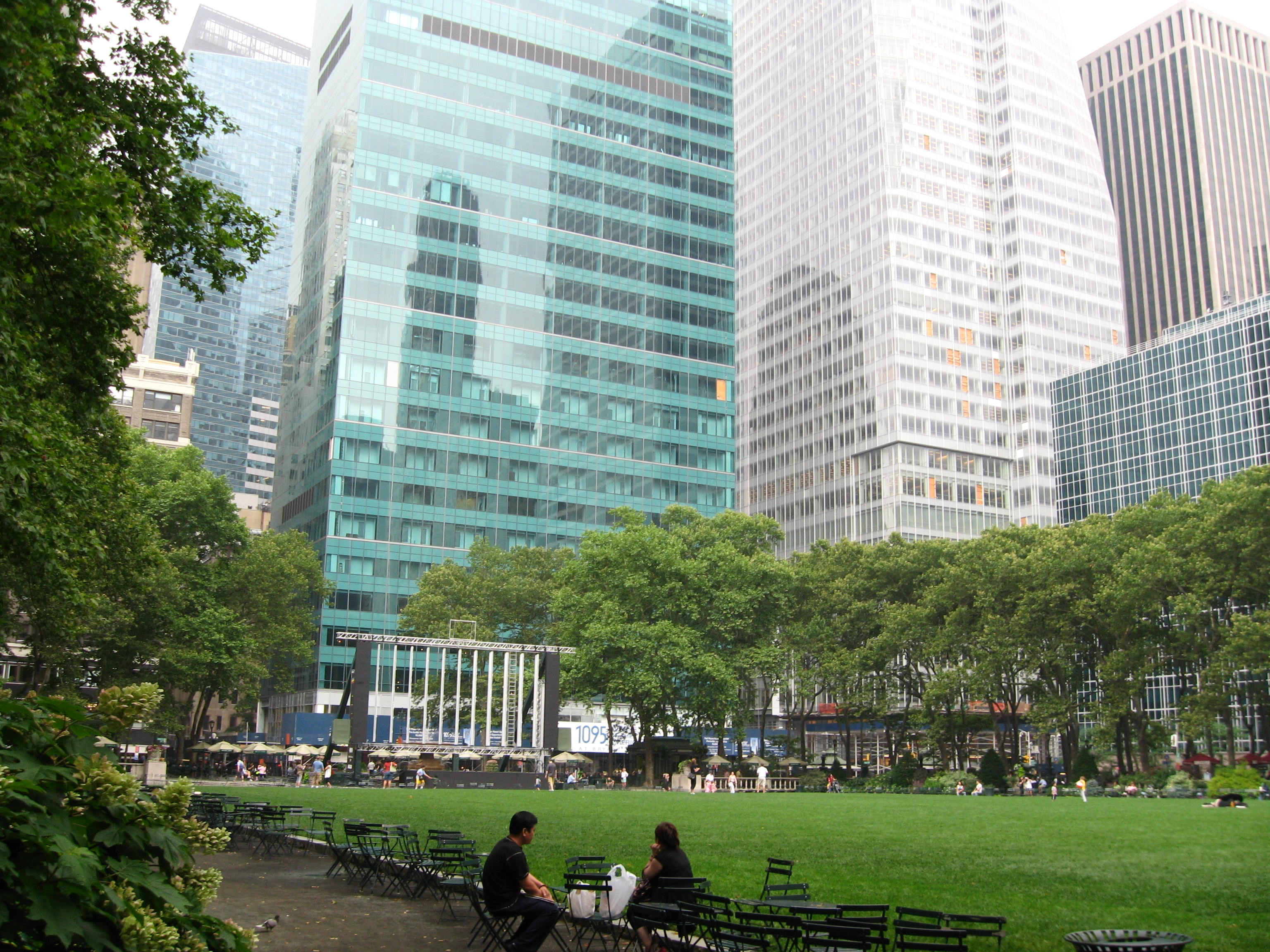 Looking northwest in Bryant Park at lawn and stage on a sunny afternoon